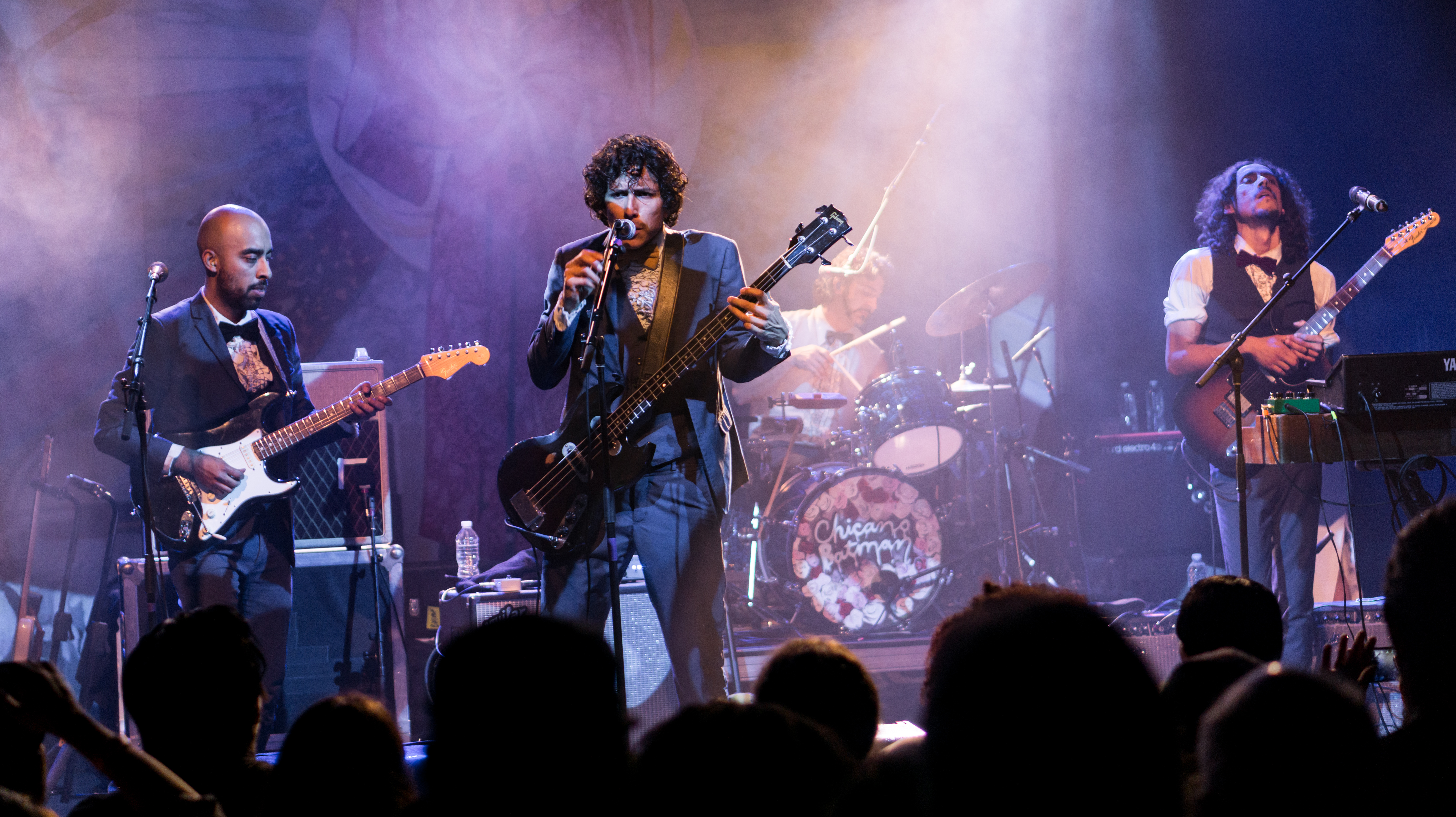 ChicanoBIrvingP051017-16